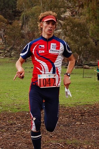 Jan Benes (CZE) Junior World Orienteering Championships 2007 -- Relay